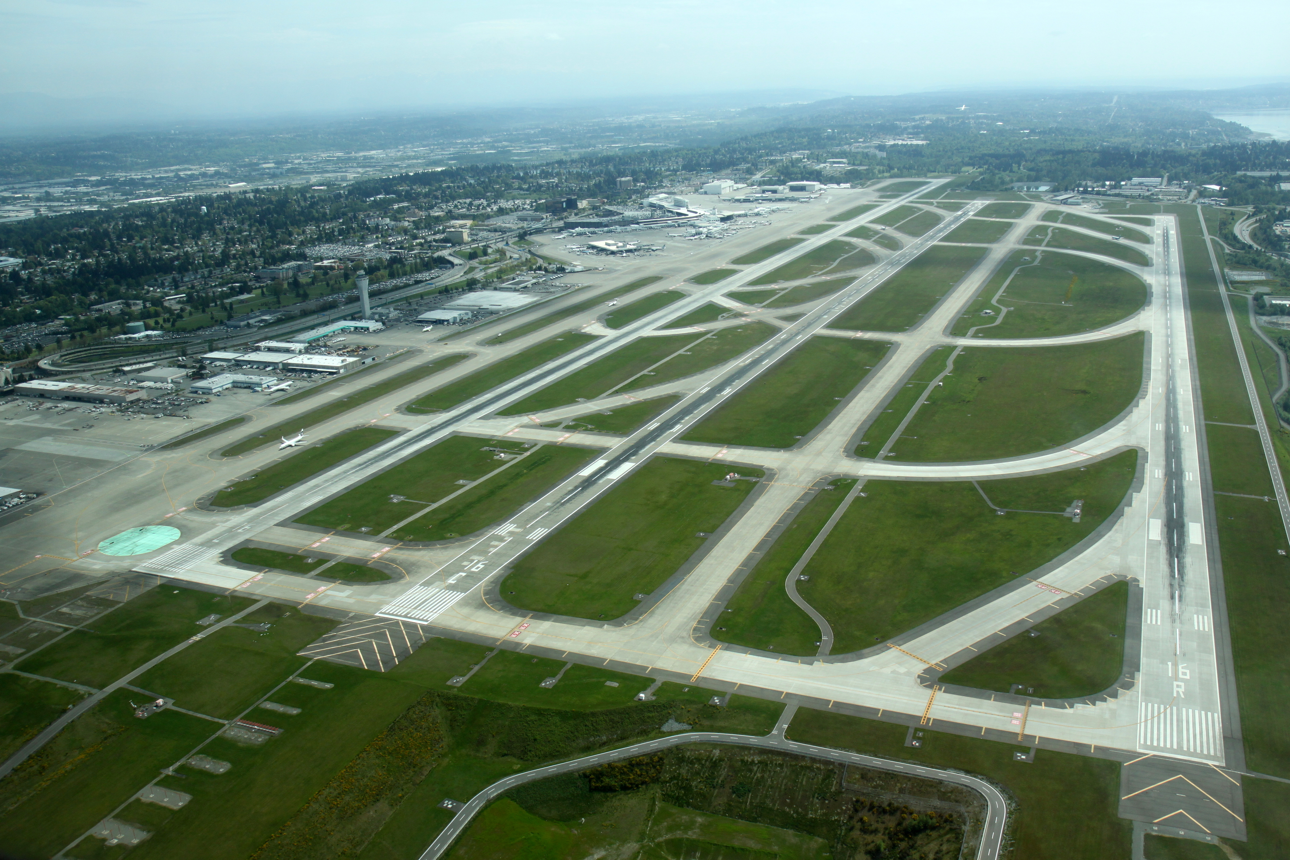 An aerial view of the Seattle-Tacoma International Airport from the north end of the field, looking south.